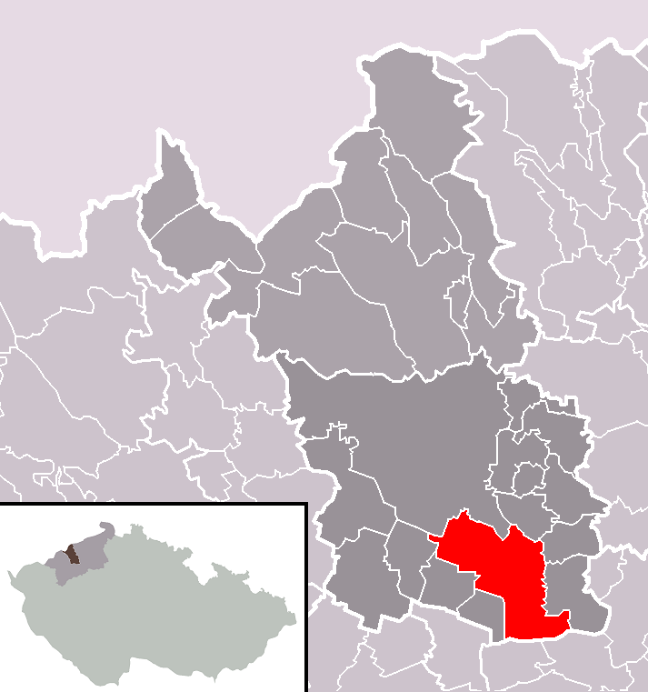 Location of Bečov municipality within Most District and administrative area of Most as a Municipality with Extended Competence.